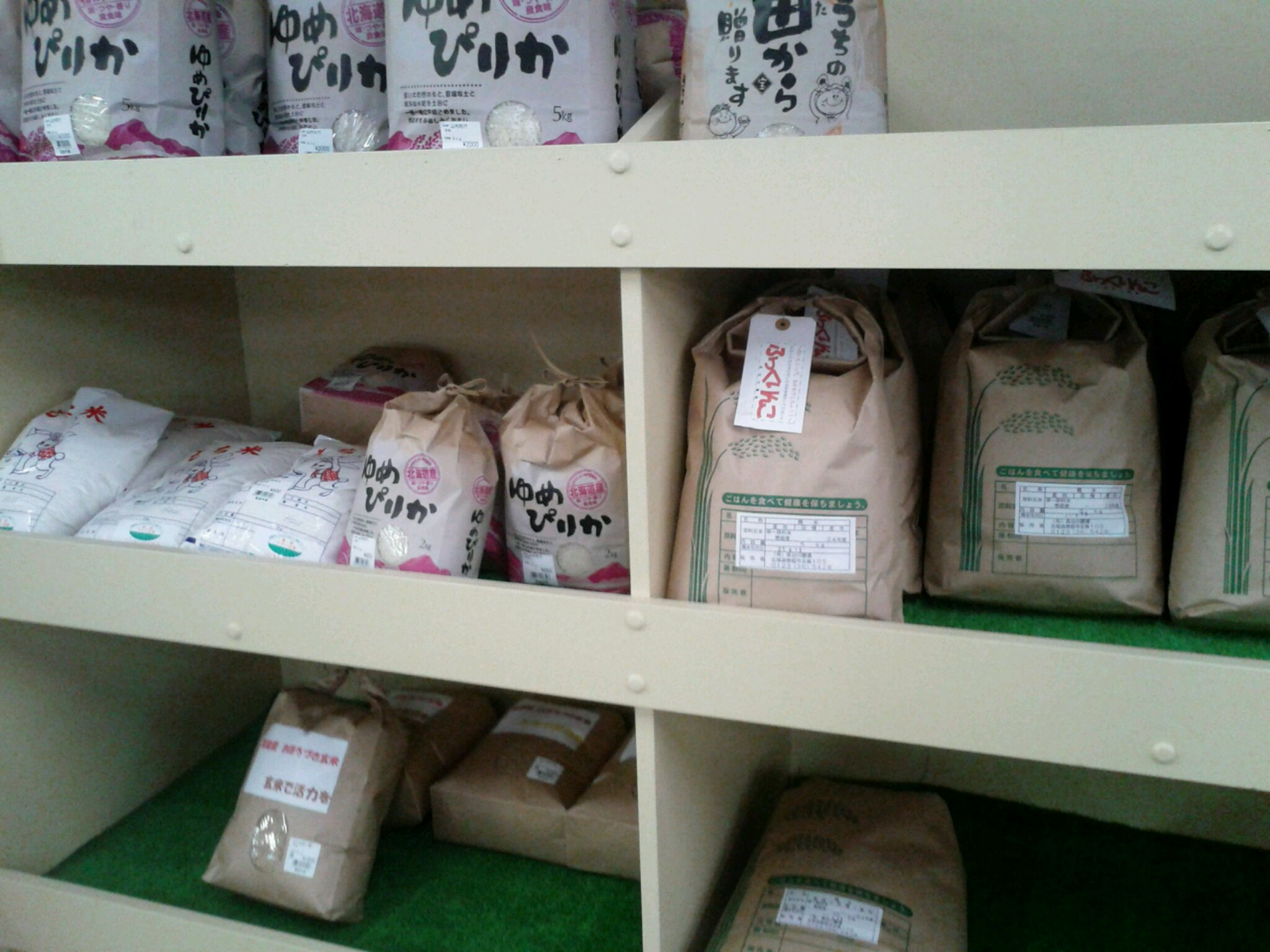 A selection of rices grown in Eniwa, Hokkaido, at the Kanoha local goods store in Eniwa. The varieties Yume Pirika, Oborozuki and Fukkurinko are shown in stock.